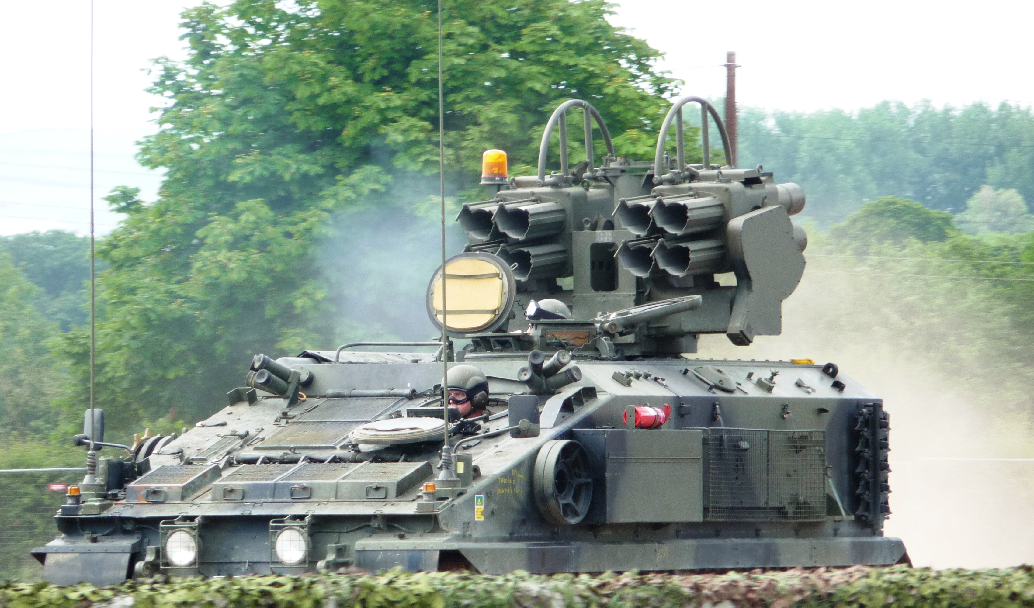 Alvis Stormer at the Tankfest 2009.